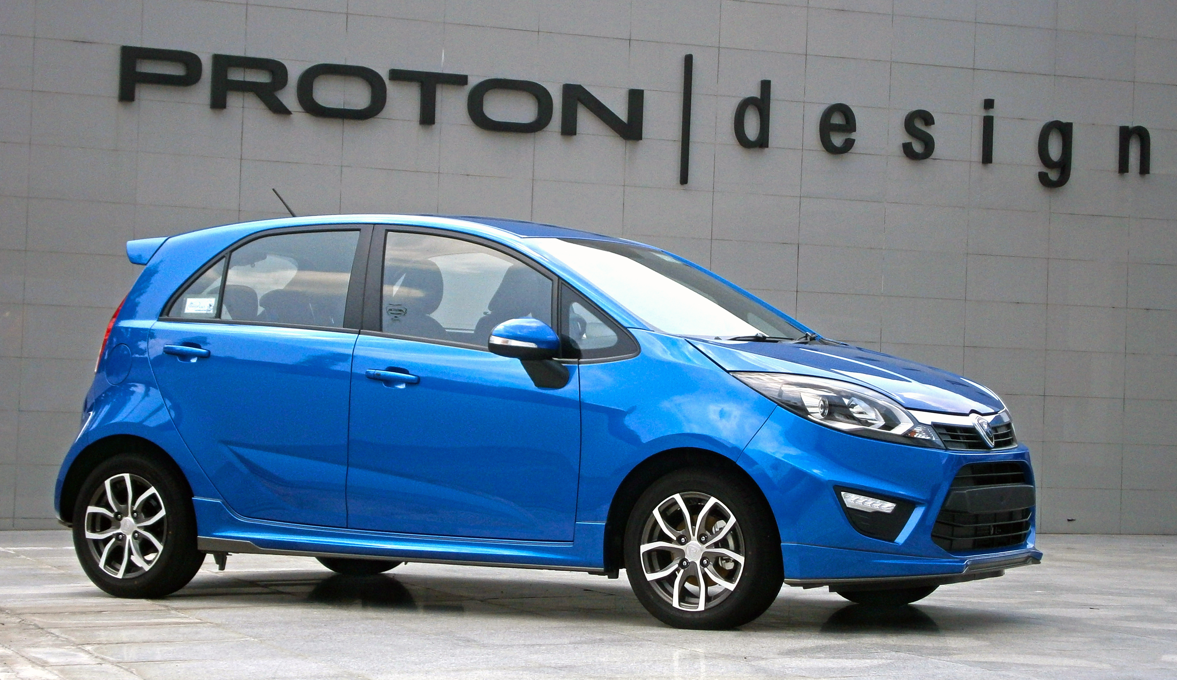 2014 Proton Iriz 1.6L Premium in Shah Alam, Malaysia. Colour : Atlantic Blue